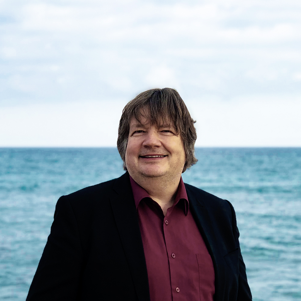 Dirk Raufeisen 2020